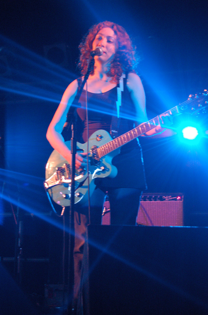 Photo of Regina Spektor in concert.